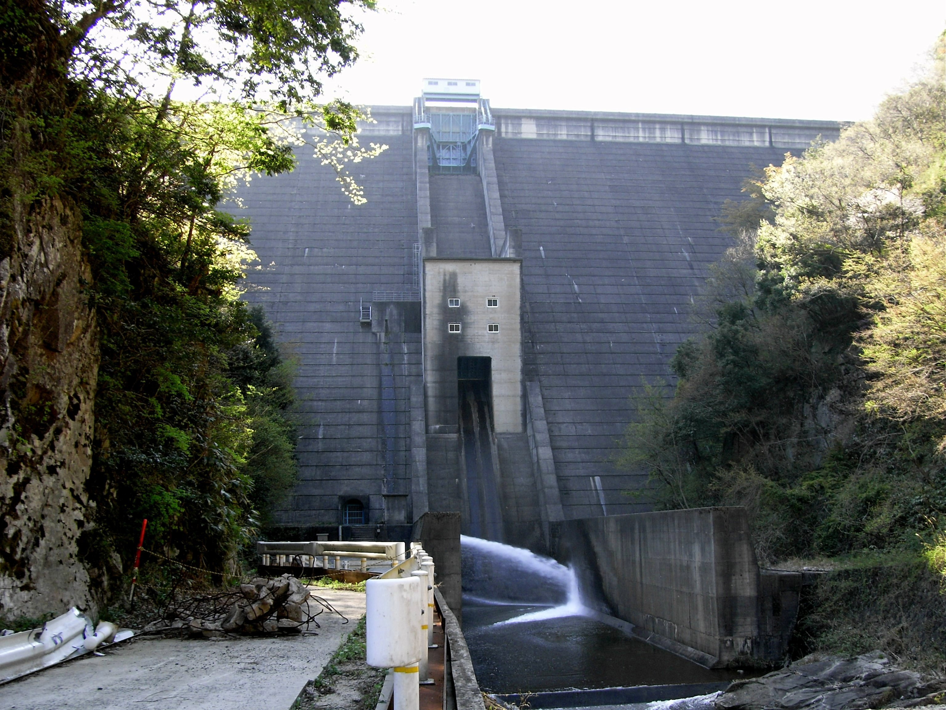 Sugasawa Dam(Ingagawa river/Tottori Pref./Japan)